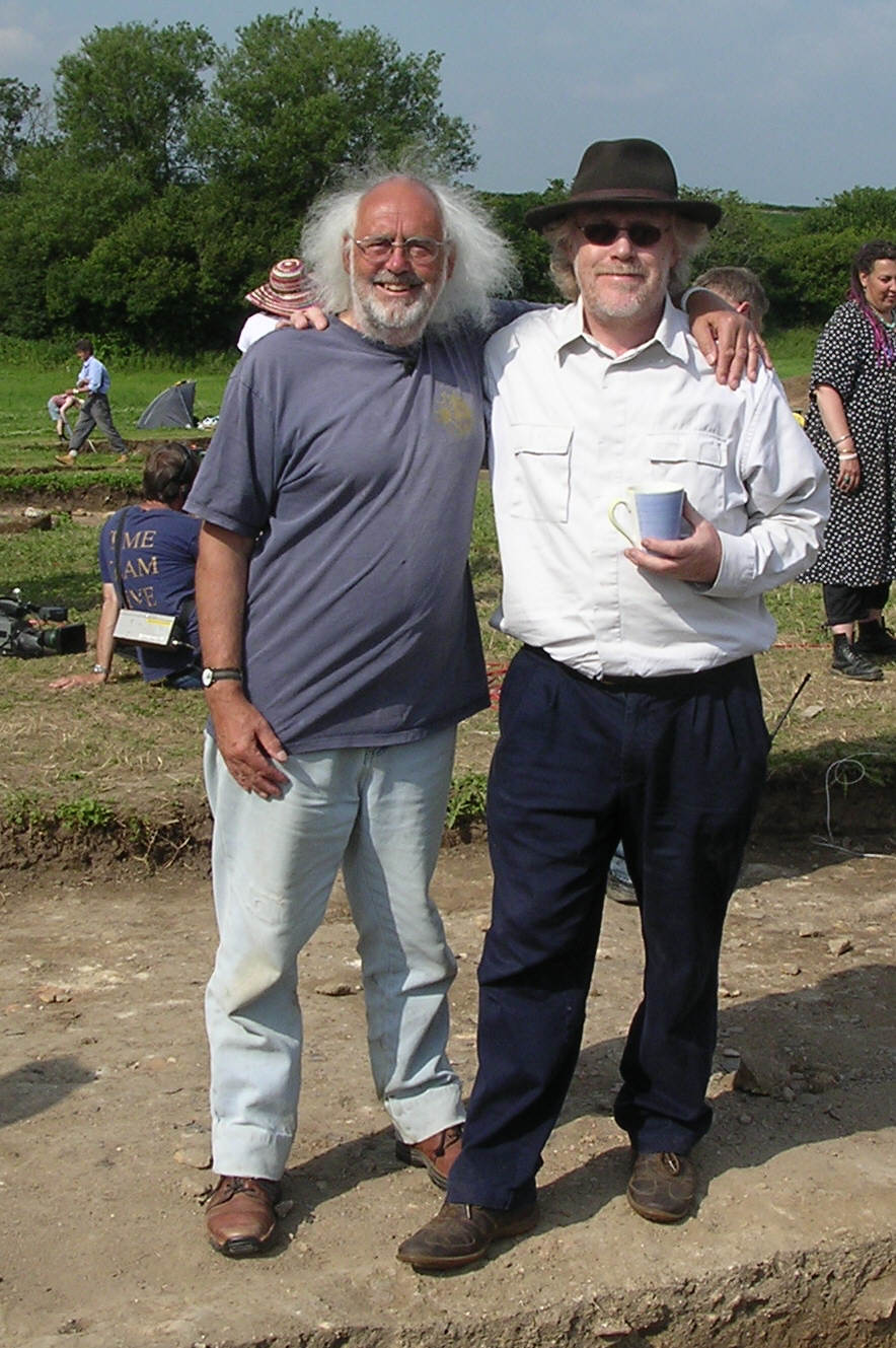 Author: G de la Bedoyere